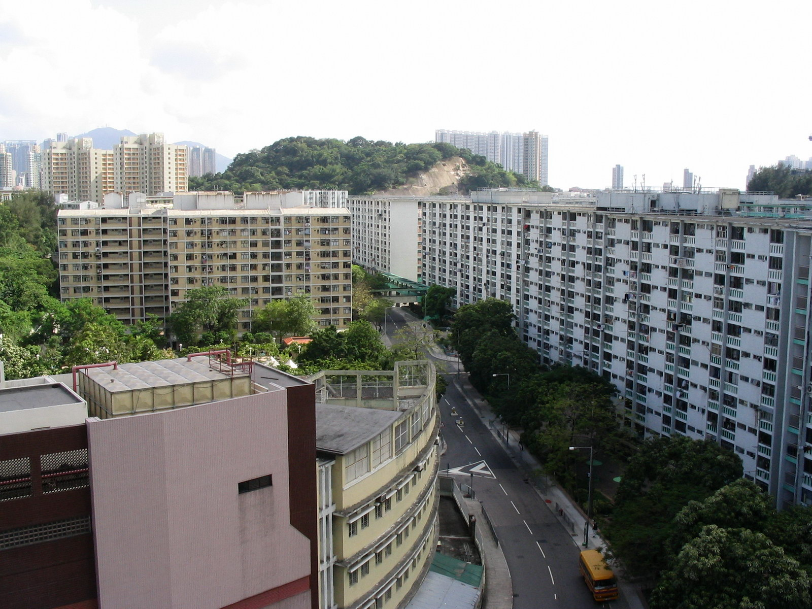 石硤尾-大坑東道一帶 Tai Hang Tung Road, Shek Kip Mei. Looking south.